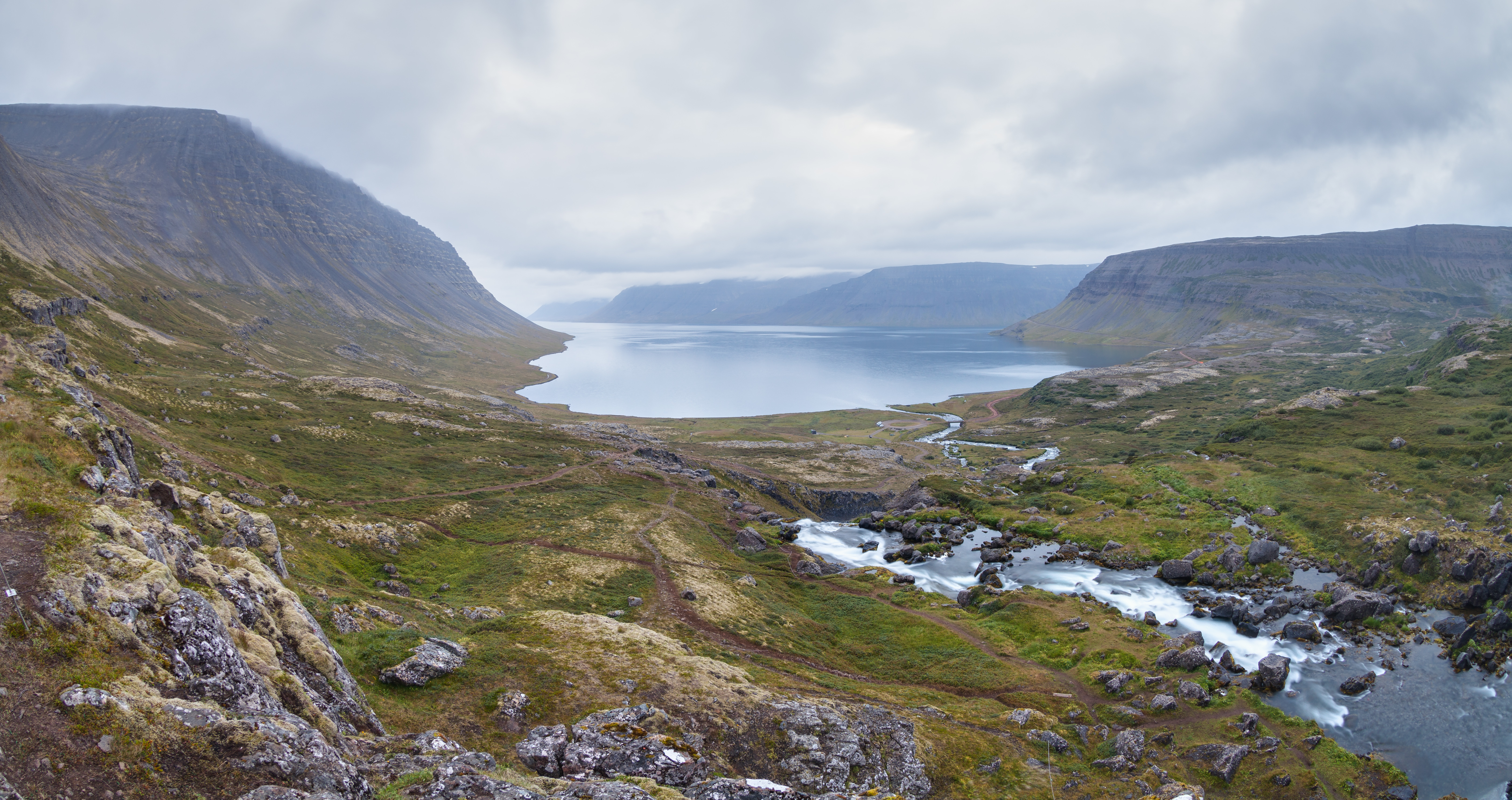 Dynjandisá river, Vestfirðir, Iceland